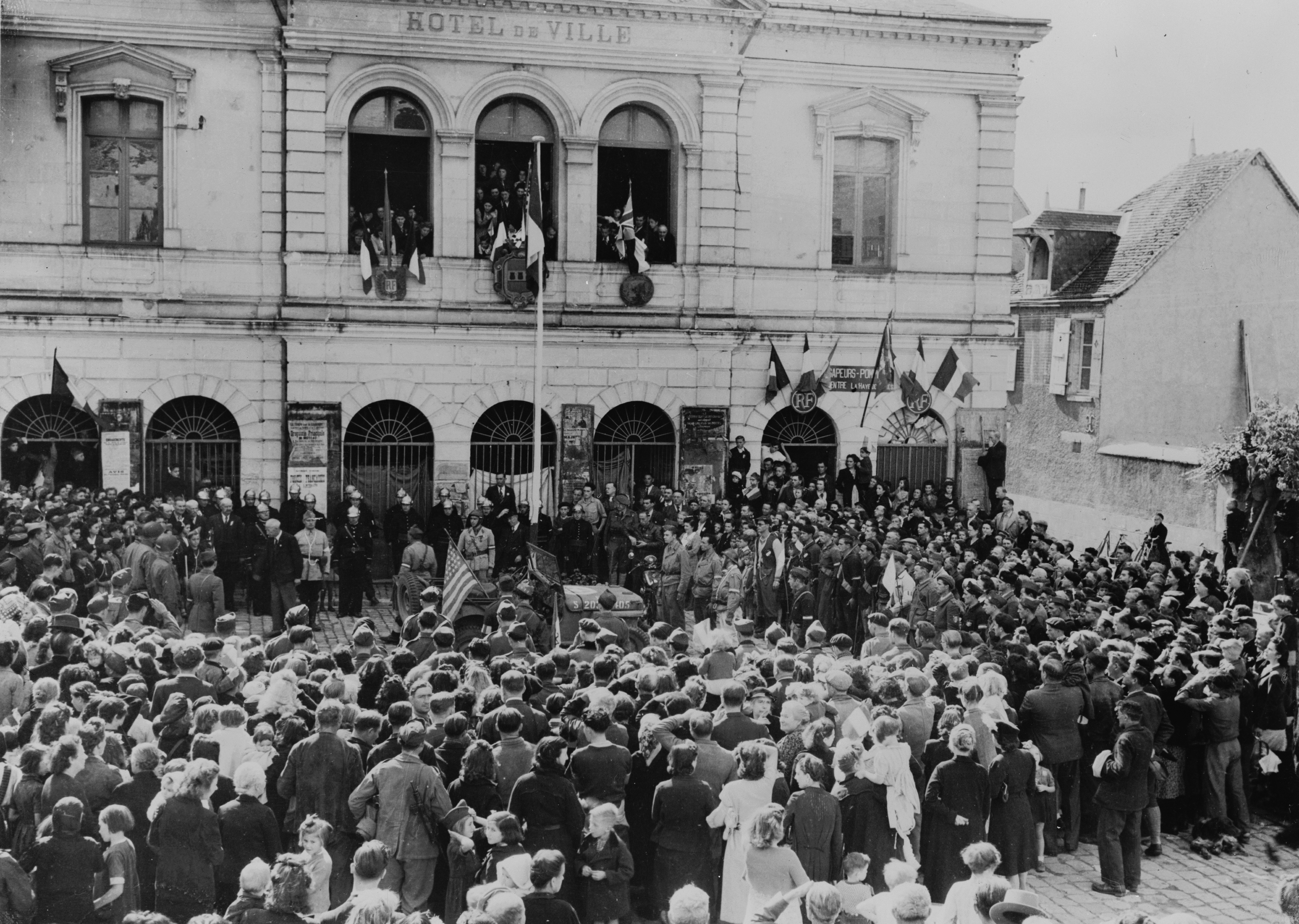 Descartes in 1944 Location in Google Street View